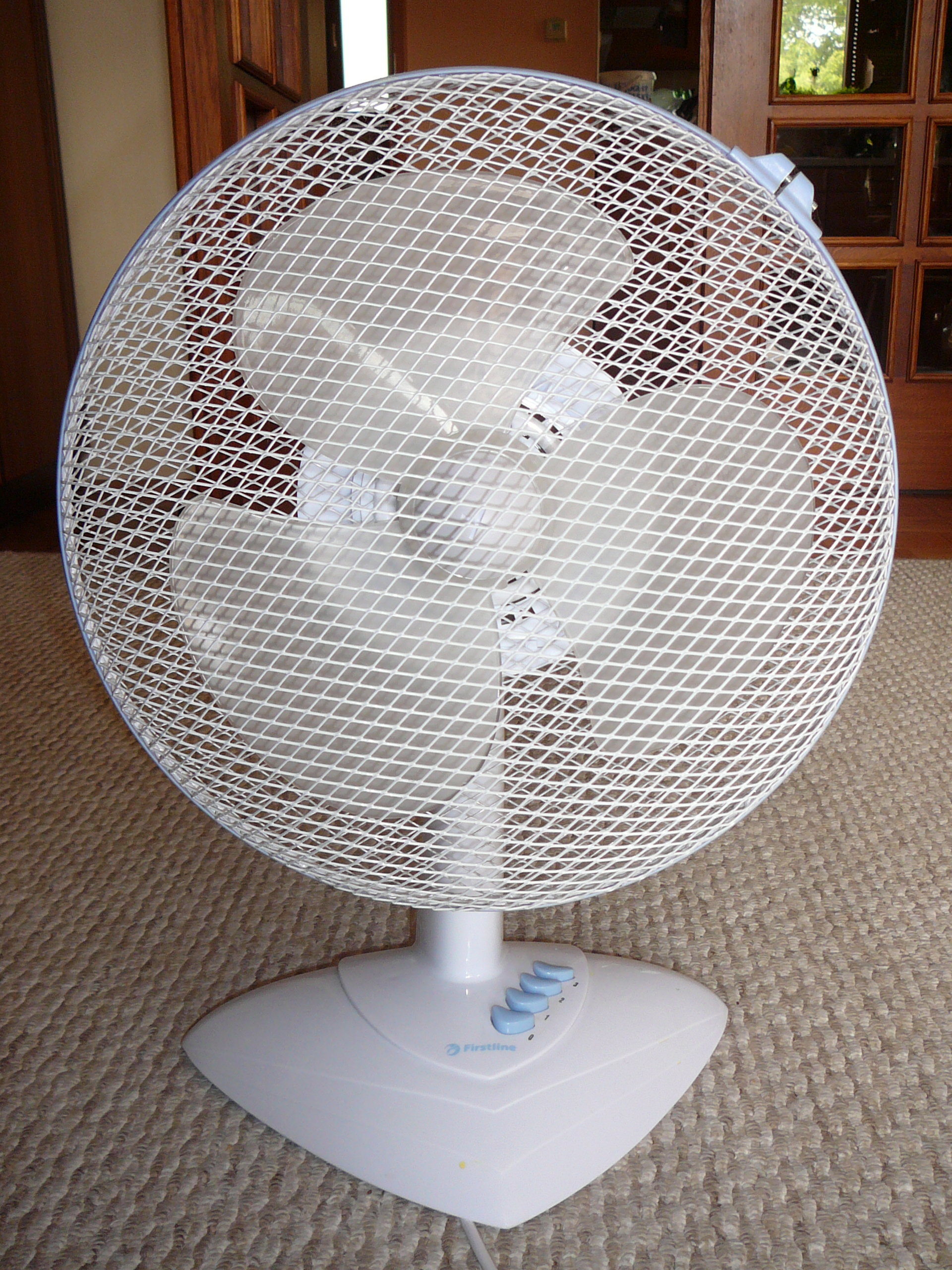 Firstline mechanical fan